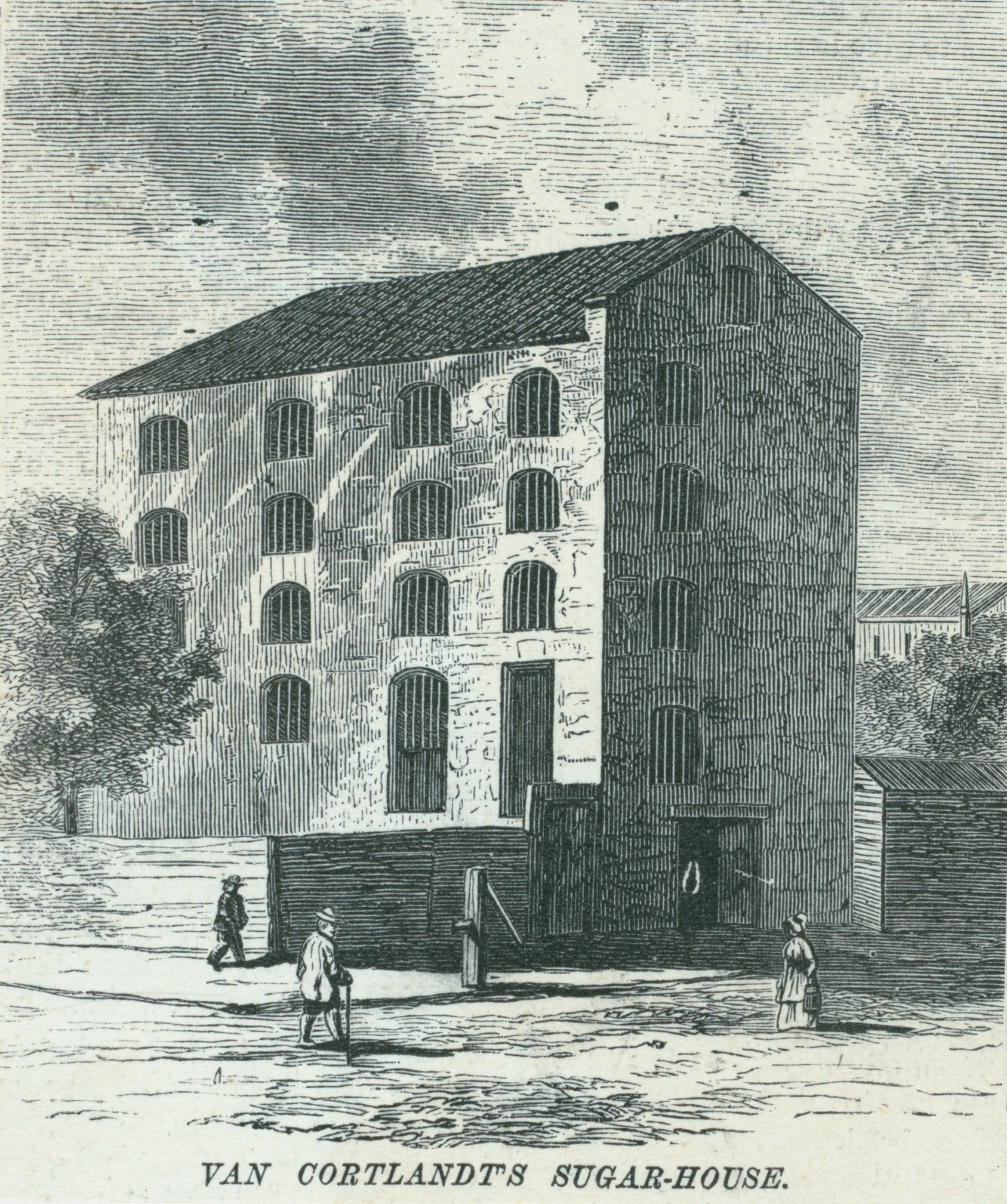 Illustrated by Thomas Addis Emmet, 1880. Volume 2 consists of pages 1-99 of the 1865, quarto, edition of the work, volume 3 of pages 99-213, volume 5 of pages 303-400. Citation/Reference: EM12422 This building is on the western portion of the site of the present-day Trinity Building (of 1905, before its 1907 enlargement).